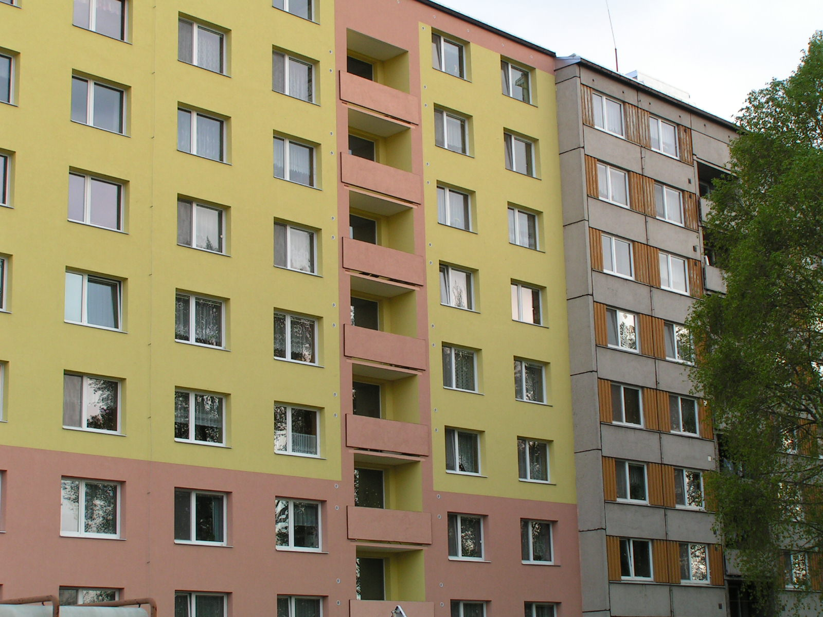 House on Dukelská street, Holešov-Všetuly, Czech Republic.